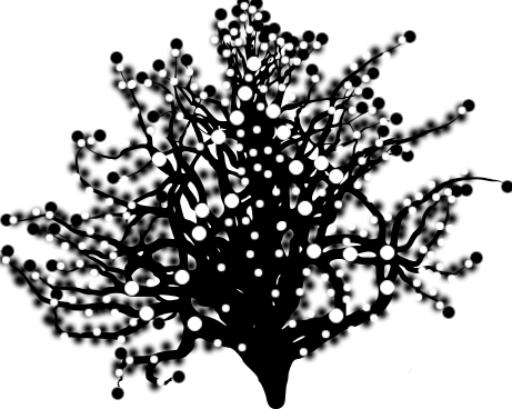 Graph about game theory